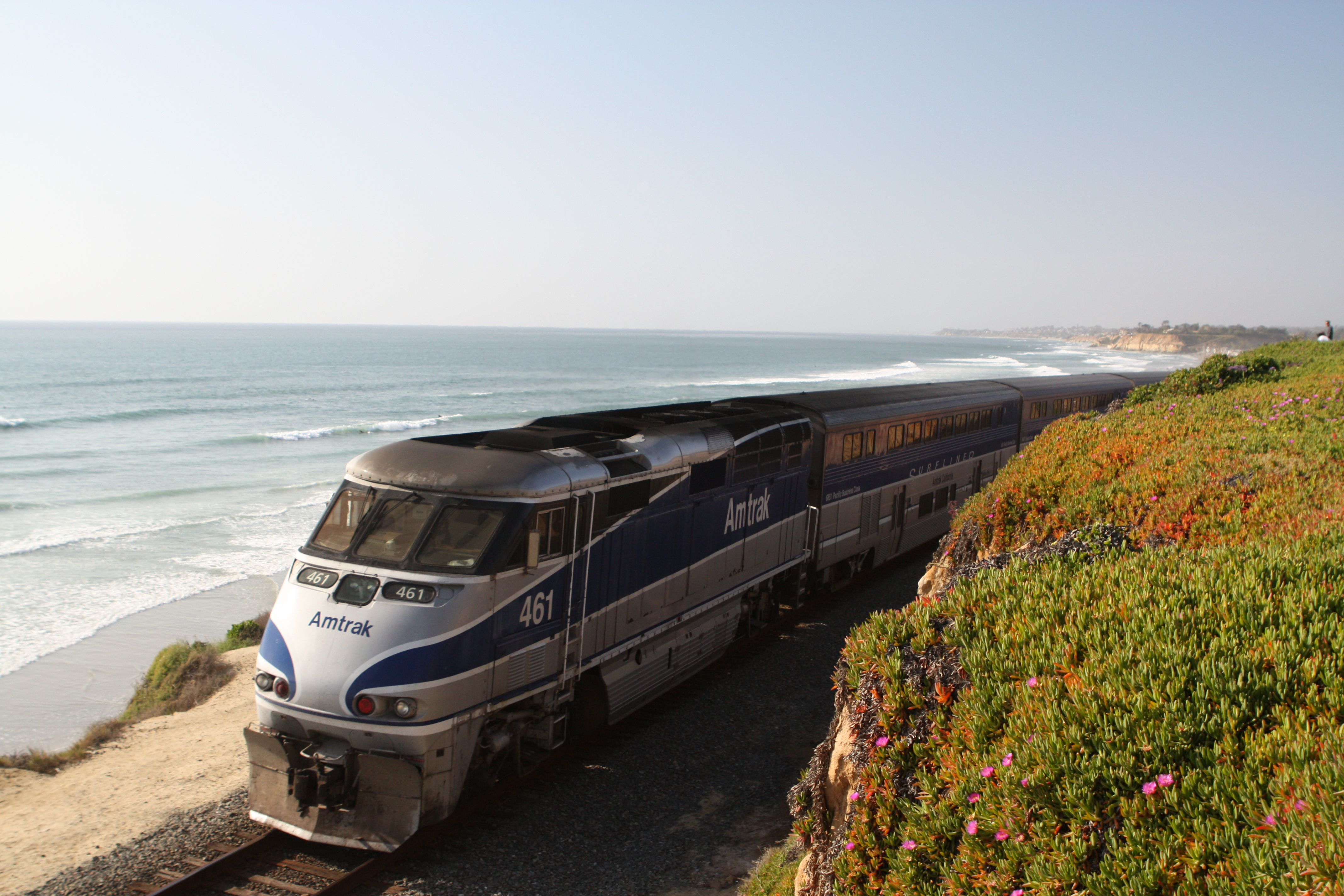 A Pacific Surfliner train in Del Mar in April 2010